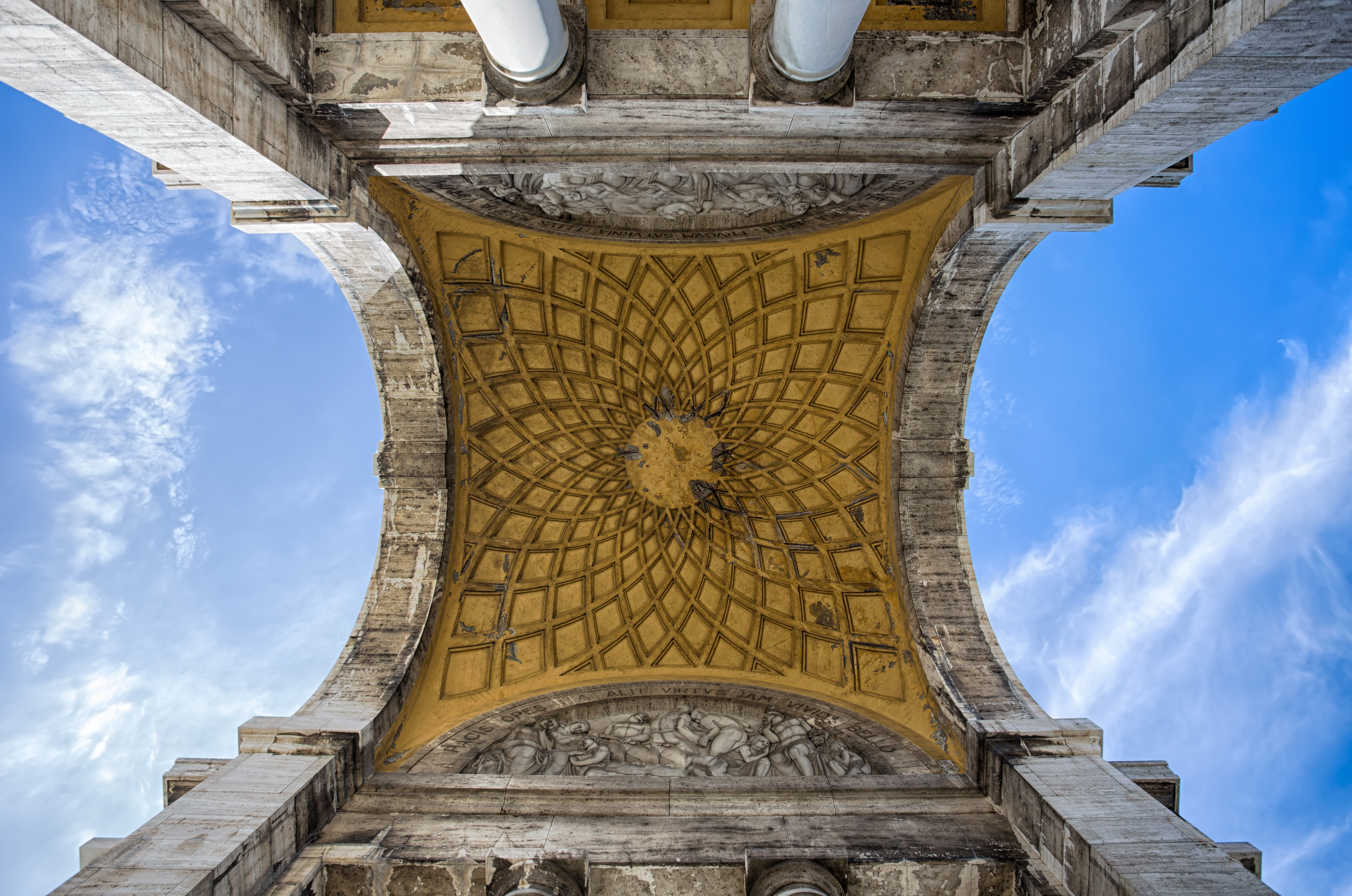 Arch of Triumph, Victory square in the center of Genoa, Italy This is a photo of a monument which is part of cultural heritage of Italy.